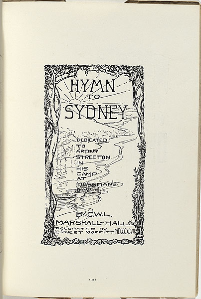 Hymn to Sydney. 1899 From the Collection of the National Gallery of Australia Accession No: NGA 00.192.9 Print, Illustrated book, intaglio; relief Technique: reproduction of line drawing, printed in black ink, from one plate Primary Insc: Not signed. Printed date, lower right within image, in black ink 'MDCCCXCVII'. Printed title, within image, in black ink 'HYMN / TO / SYDNEY / DEDICATED / ARTHUR / STREETON / IN / HIS / CAMP / AT MOSSMAN'S / BAY'. Inscribed with printers details, lower centre within image, in black ink 'BY G.W.L. / MARSHALL-HALL / Not inscribed. printed image 17.0 h x 9.2 w cm page 28.2 h x 18.5 w cm.